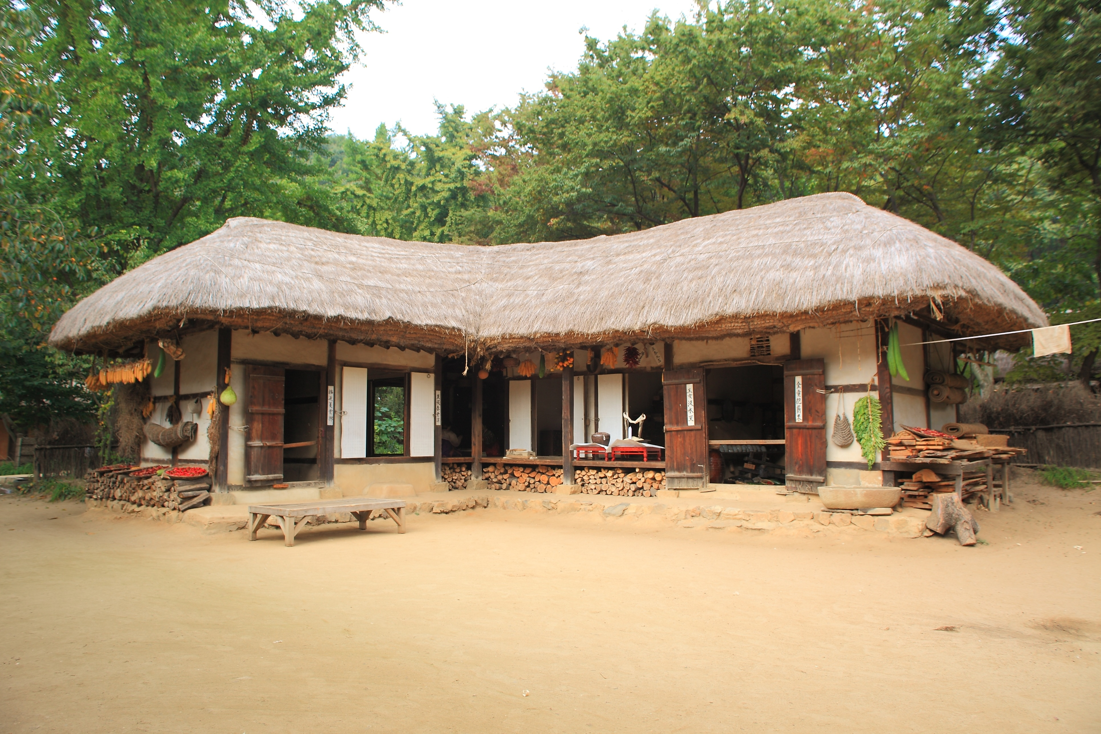 Choga (grass house)